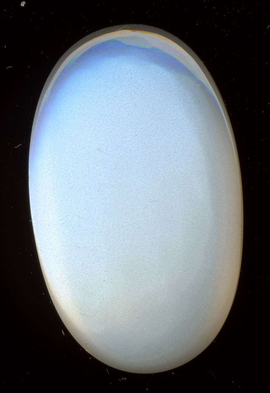 Moonstone from the mine at Meetiyagoda in Sri Lanka.